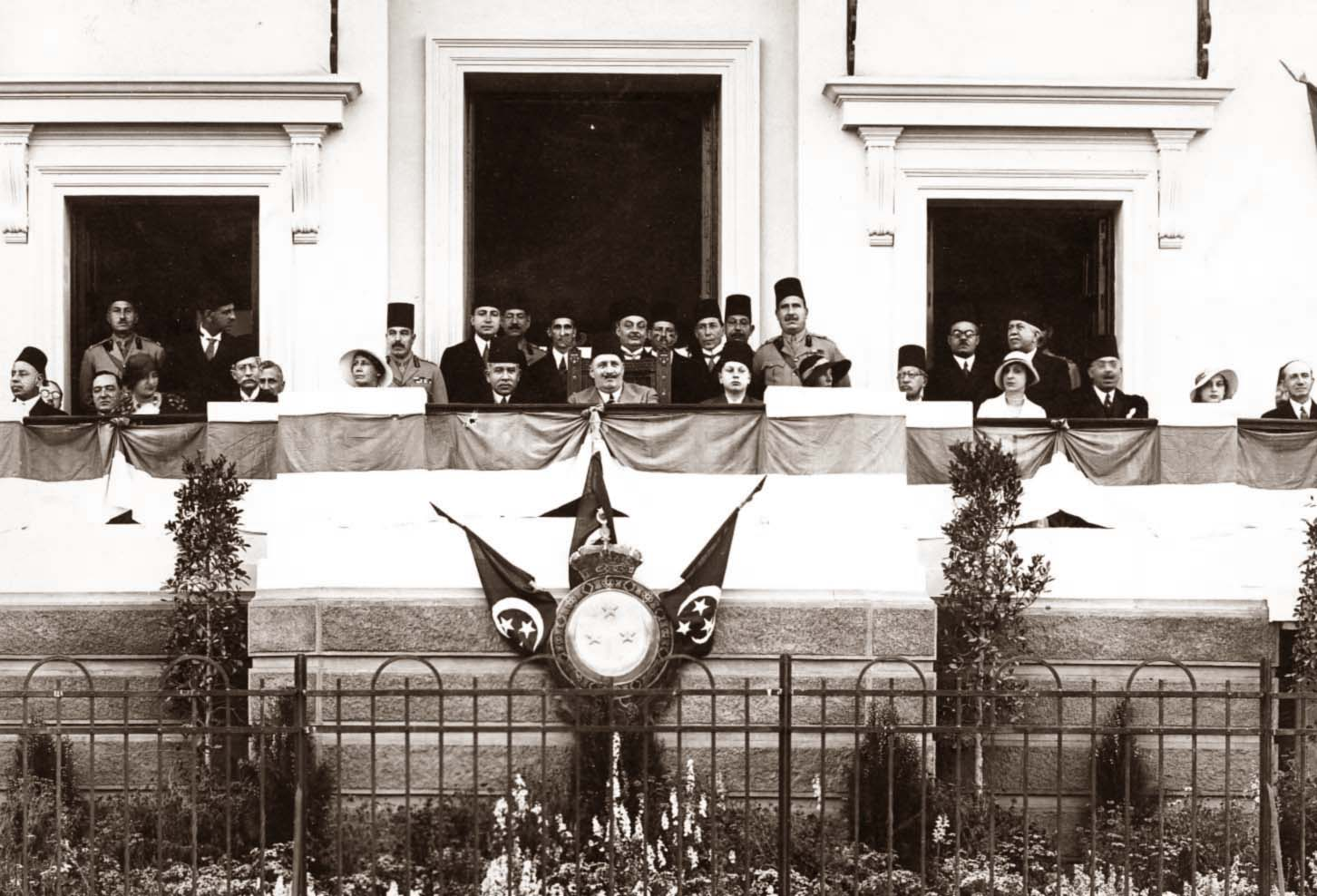 King Fouad I of Egypt and his son Crown Prince Farouk attend a ceremony organized by the Egyptian Federation for Scouts and Girl Guides, in which Prince Farouk held the rank of First Scout of Egypt.